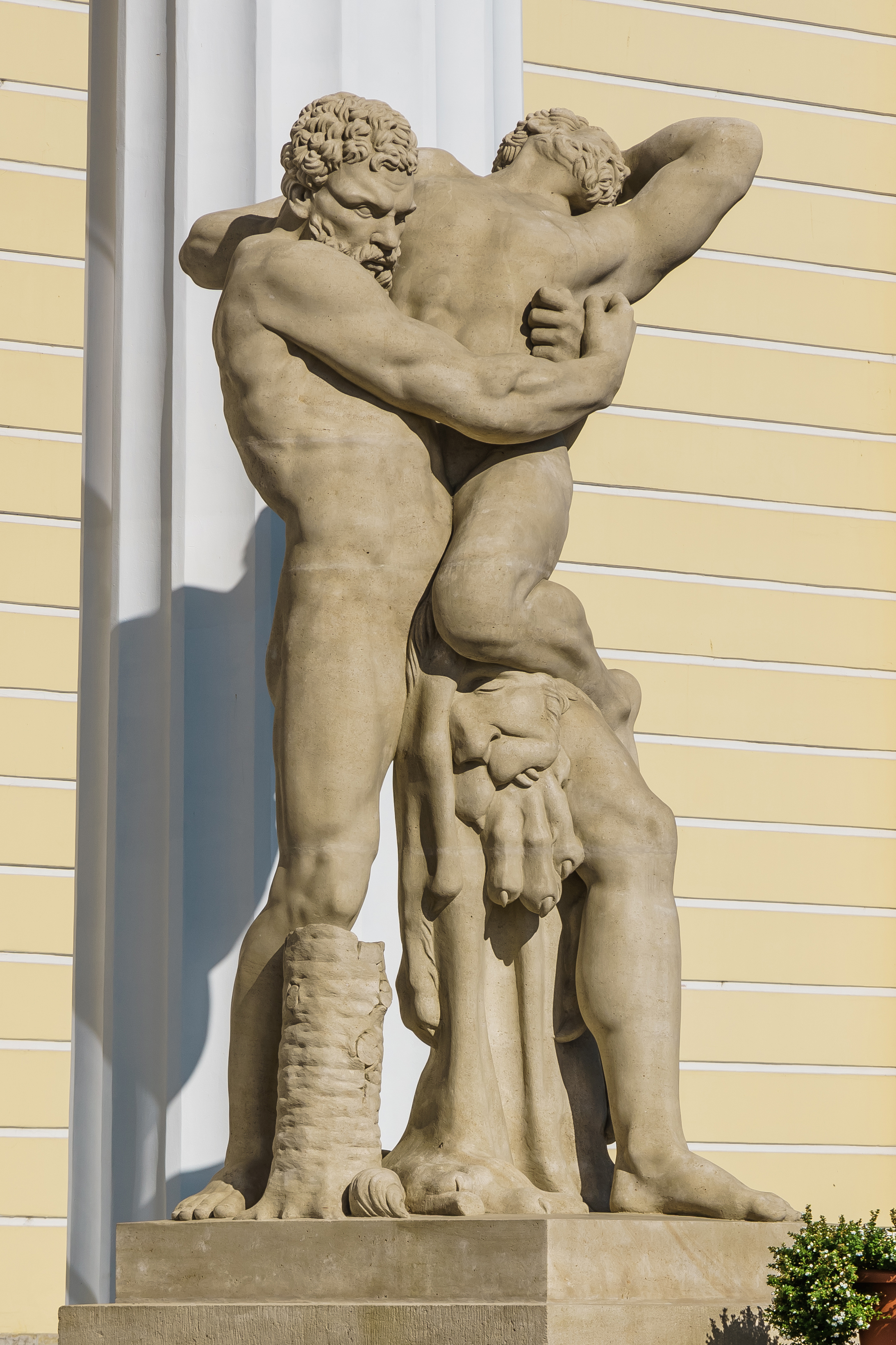 Building of the Mining College on Vasilievsky Island in Saint Petersburg, Russia